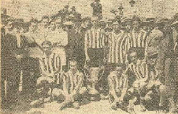 Club Espana De Puebla champion in 1926